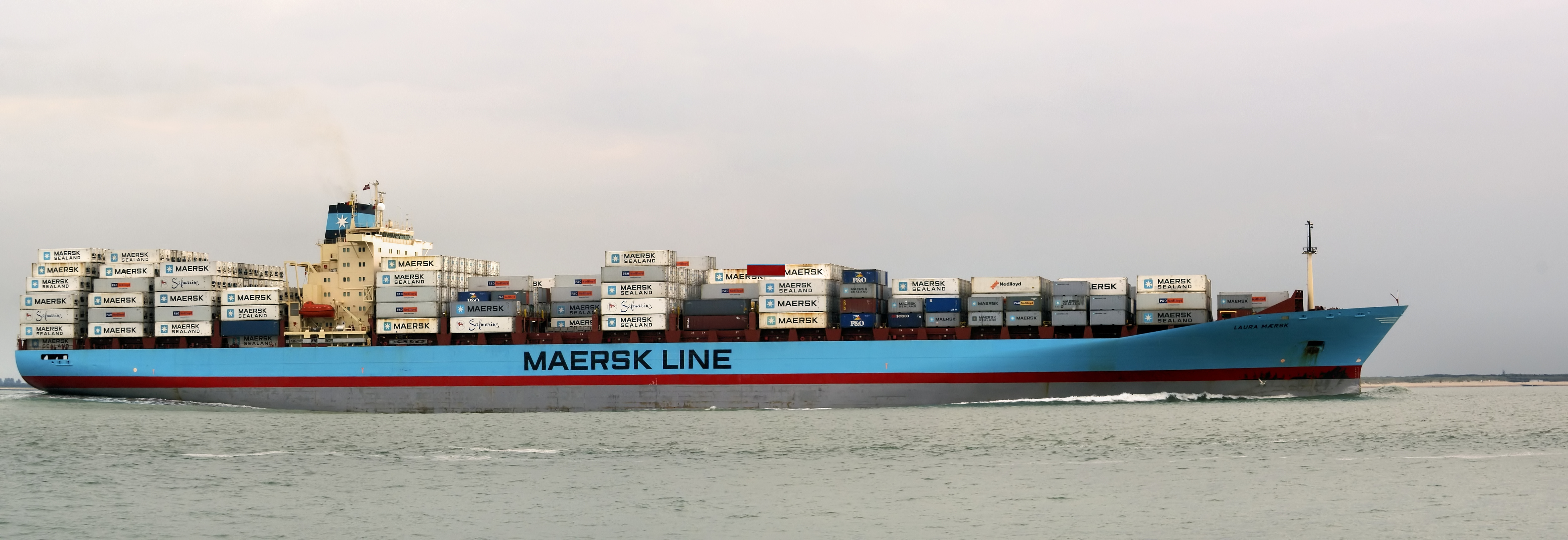 The Laura Mærsk, here leaving the Scheldt estuary, is a container vessel, able to carry 3,700 TEU (Twenty-foot Equivalent Unit). IMO Number: 9190731 MMSI Number: 219947000 Callsign: OWKI2 Length: 266 m Beam: 37 m View in interactive viewer